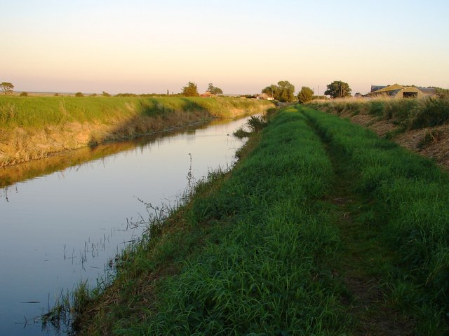 The Car Dyke near Branston, Lincolnshire